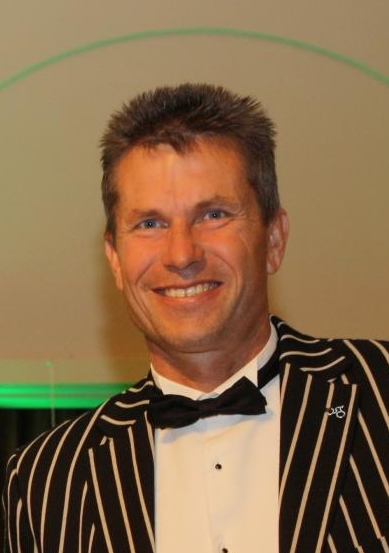 Presentation of the Joint Walking and Cycling Award; 2012 Cycle Friendly Awards and Walking Awards. From left: Carl Whittleston, Liz Beck (both New Plymouth District Council) and Chris Tremain (Associate Minister of Transport).